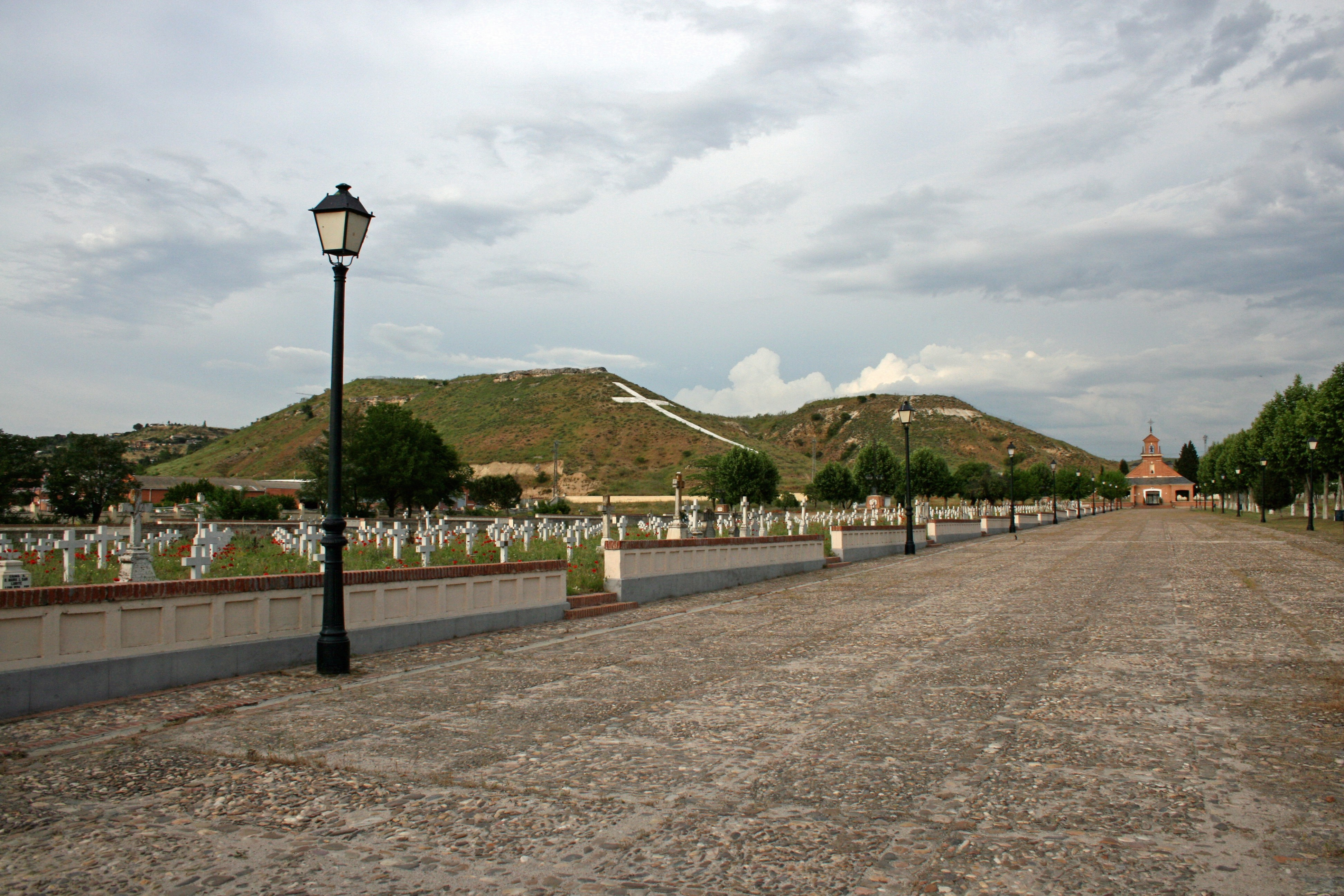 View of the cemetery of Paracuellos de Jarama where the victims of the killings which took place during November and December 1936 in the context of the Spanish Civil War are buried. Location: 40.51137, -3.54774